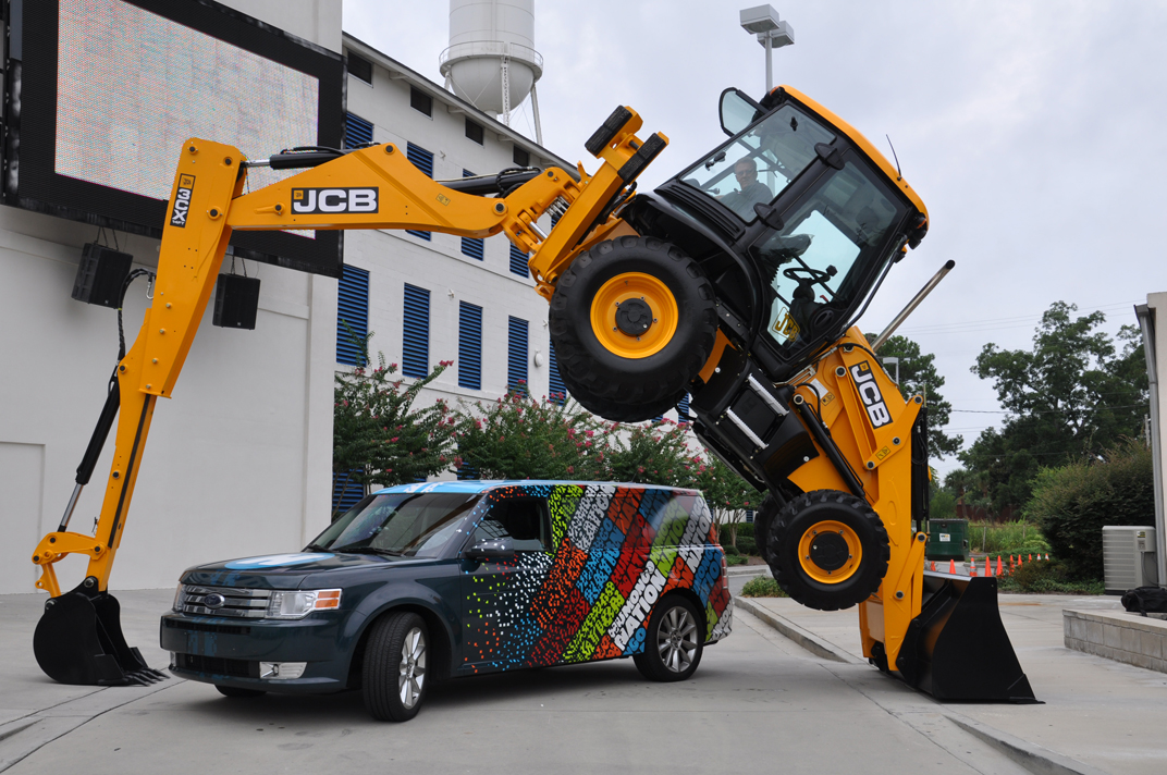 A JCB 3CX backhoe loader in Florida, USA, presenting the common "backhoe trick" (lifting the machine up from the ground by only using hydraulic power; the front loader is fixed in a lowered position, then the backhoe is lowered/pressed against the ground as if it was used for trenching); a Ford automobile below the "backhoe bridge"